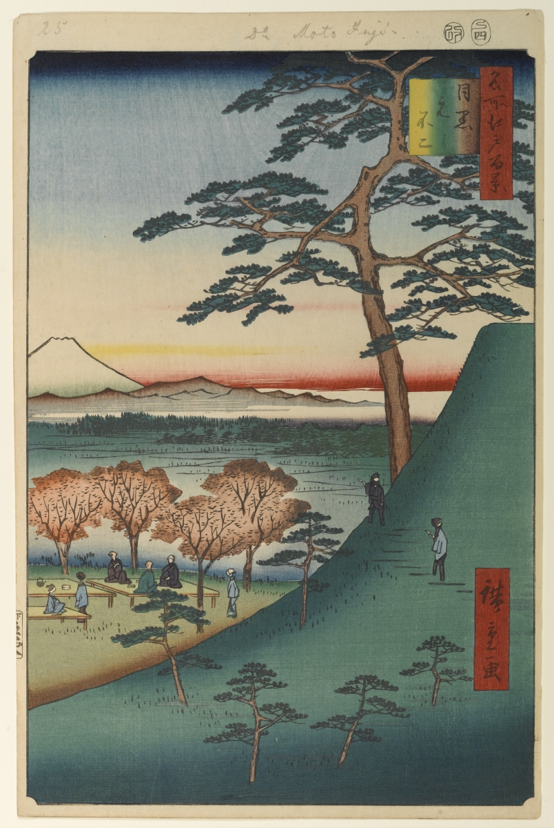 Part of the series One Hundred Famous Views of Edo, no. 025, part 1: Spring.